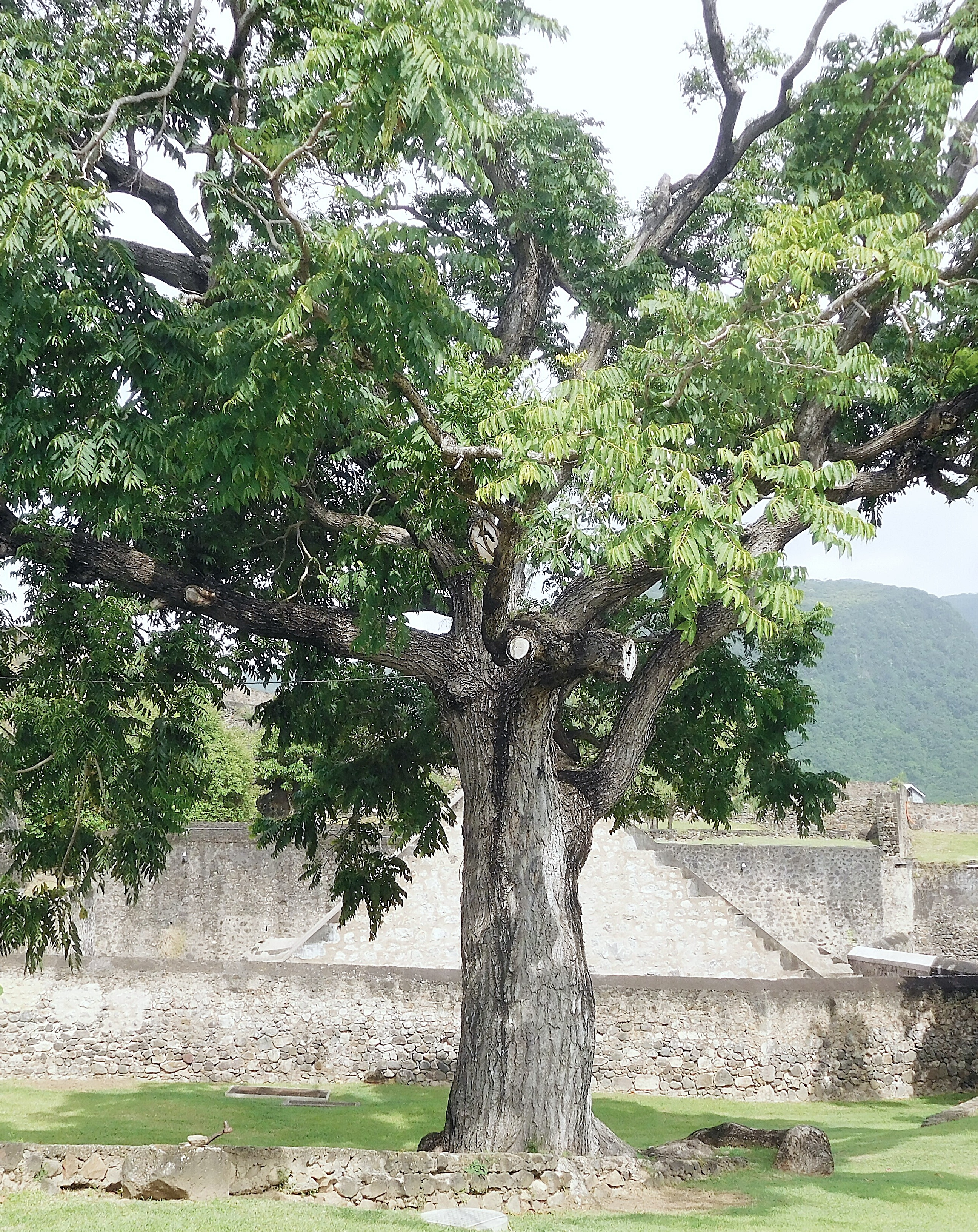 Mahogany tree